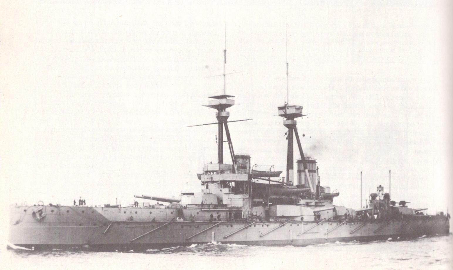 The British battleship